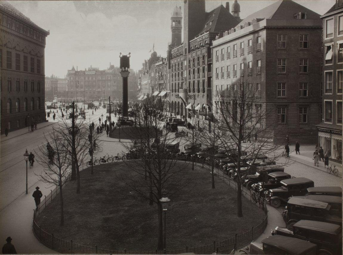 Vester Voldgade in Copenhagen, Denmark